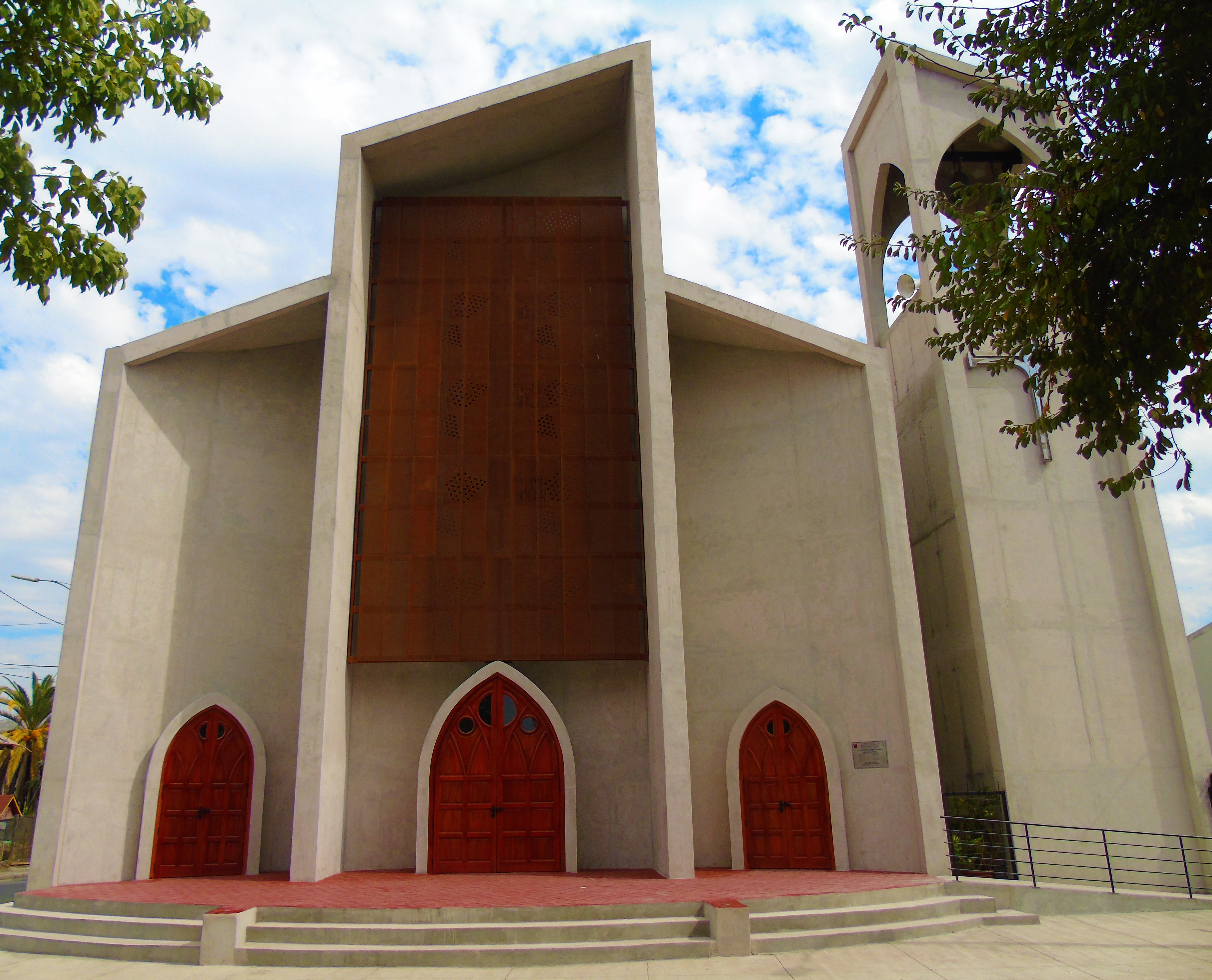 Church N.S. de La Merced, Doñihue, Chile